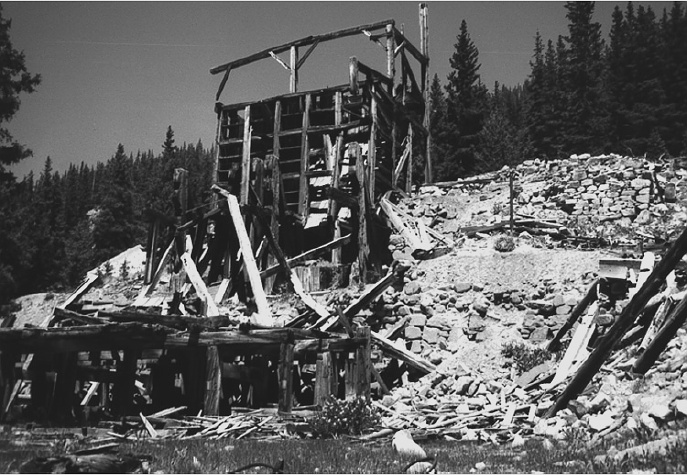 Blistered Horn Mill, also known as the Brunswick Mill, located along West Willow Creek, four miles south of Tin Cup, Gunnison County, Colorado. Circa 1998.